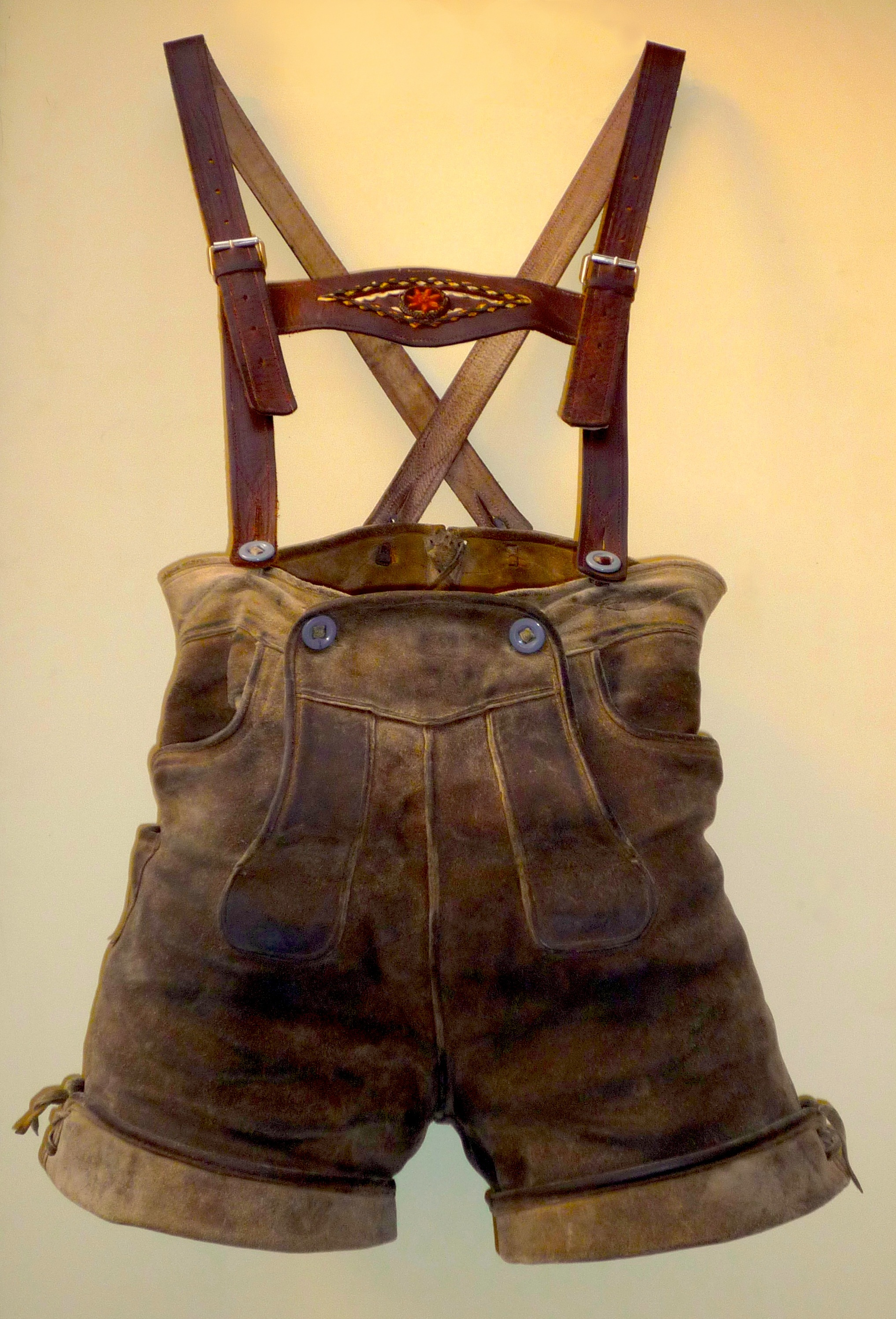 Knopflatz Lederhose, a traditionnal german leather breeche, ca. 1940